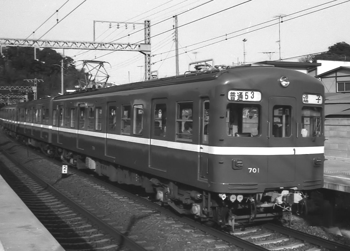 Keikyu 700 series EMU set 701 at Jimmuji Station